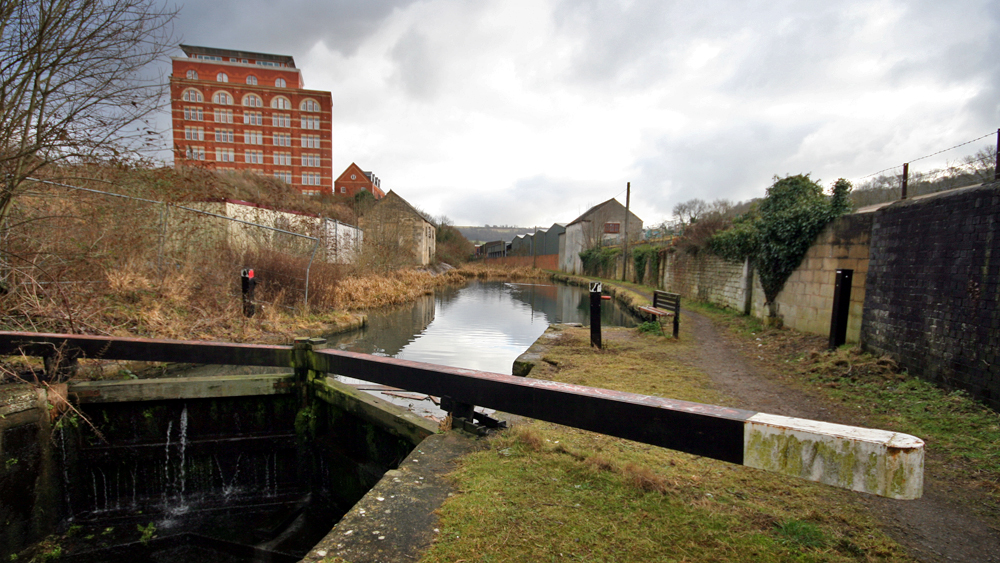 The view east from Upper Wallsbridge Lock on the Thames and Severn Canal.